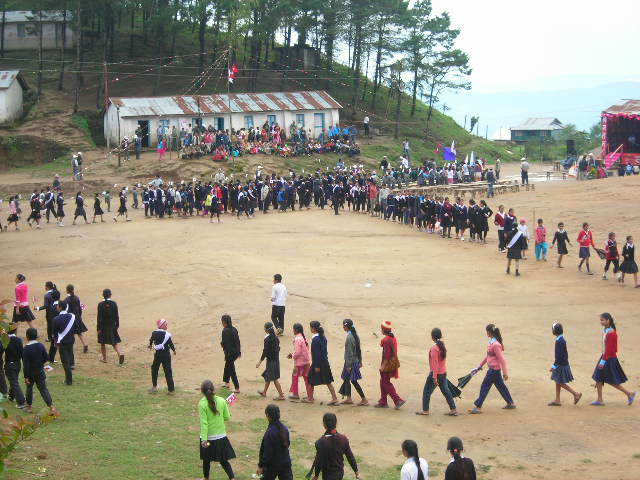 Amar Kalyan High School, During the visit of ambassador of Japan